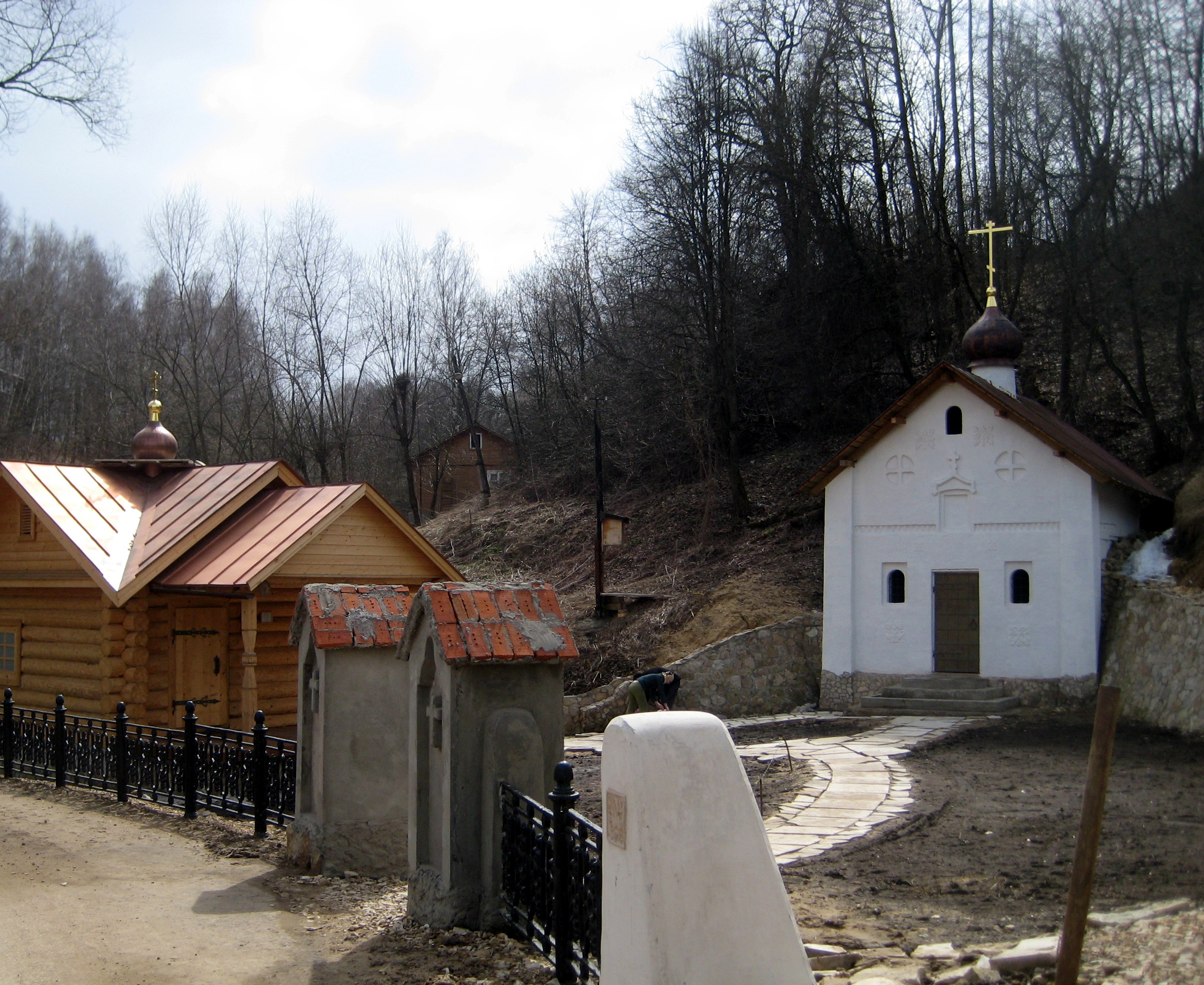 Tarusa. Chapel of icon Our Lady Bogolubskaya and bathing house at the spring in ravine.